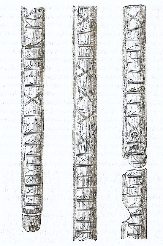 drawing of a spear head